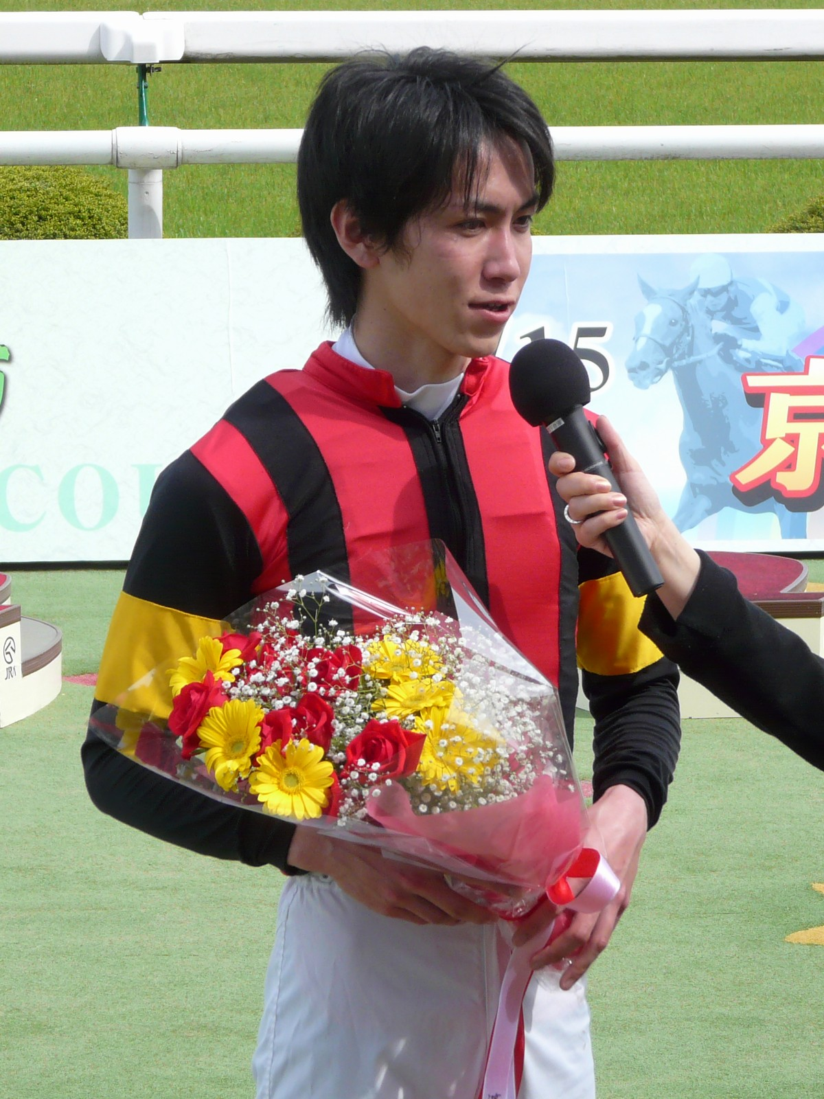 Yusuke-Igarashi20100515